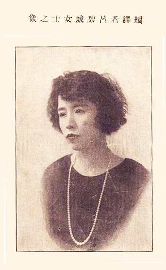 Lü Bicheng as editor